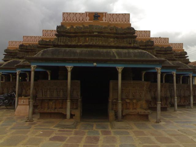 Kundgol Shambhulingeshwara_temple 15 km from Hubli Author and Source : Manjunath Doddamani, Gajendragad, Karnataka (North), India